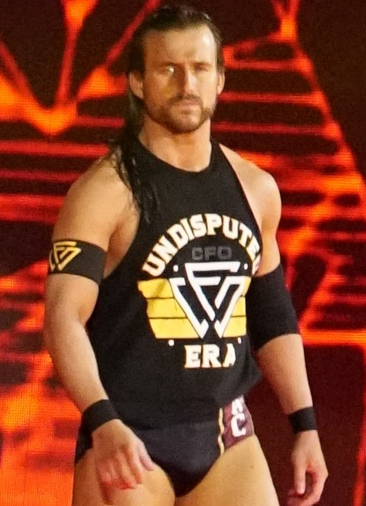 Adam Cole enters the arena at NXT TakeOver: New Orleans in April 208.